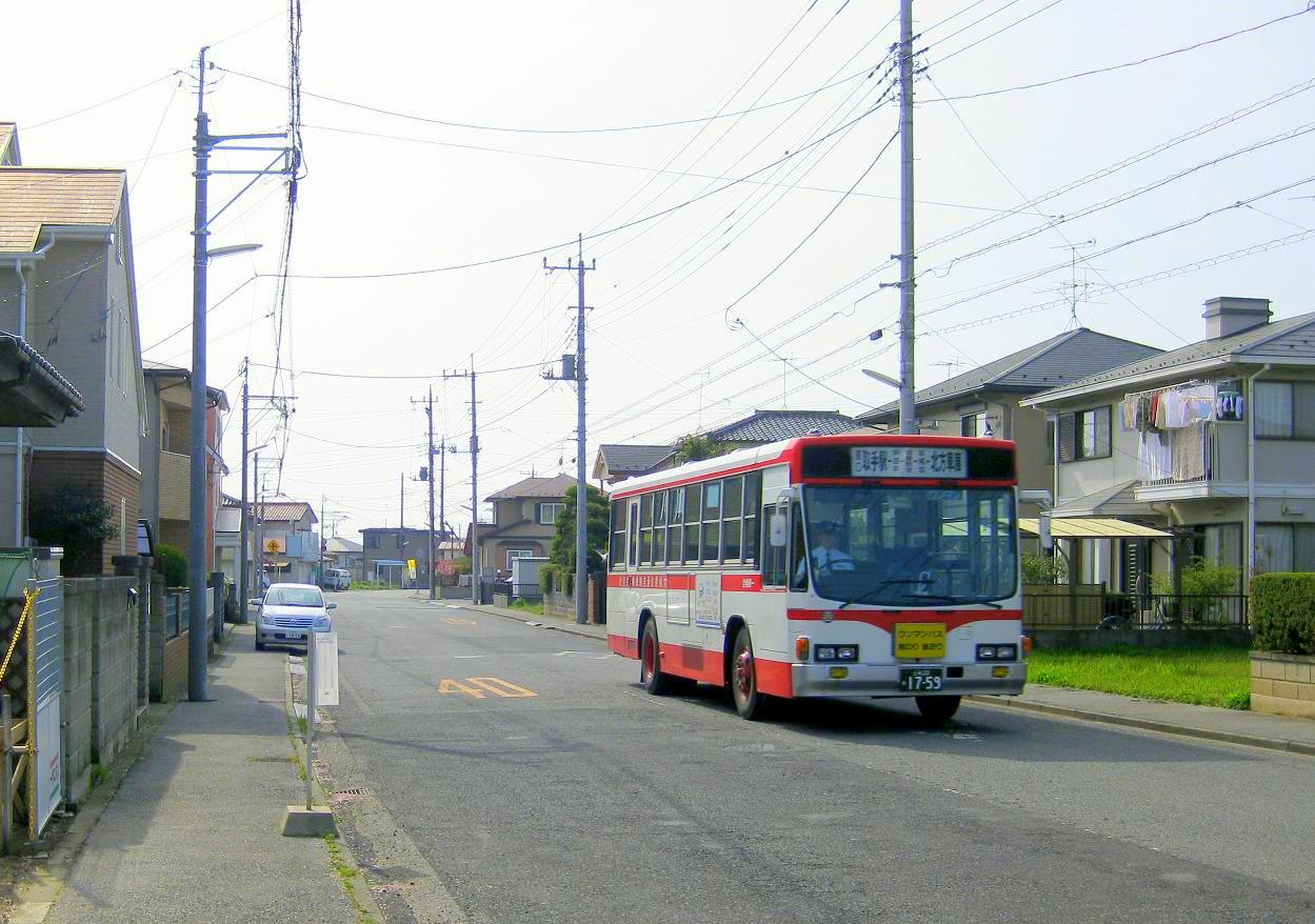 Otone kotsu bus that runs in suburbs in Ibaraki Prefecture Tone Town(Japan).